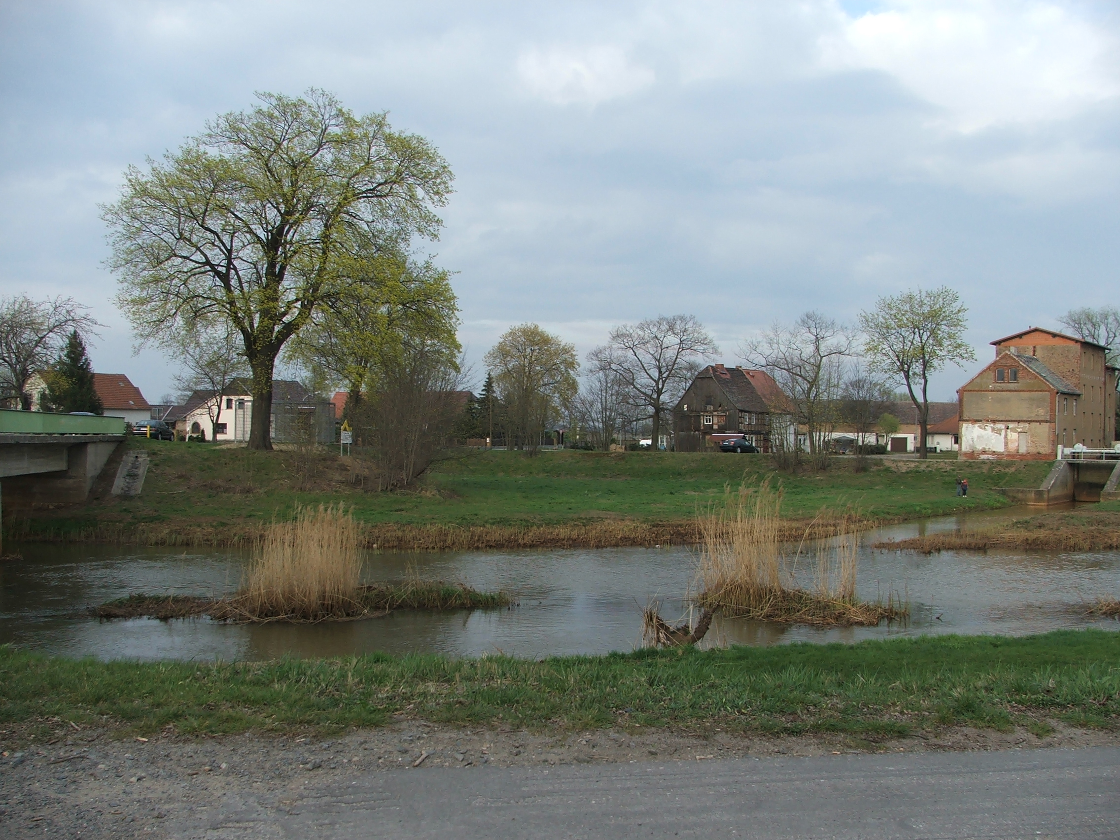 the Village München next the city Uebigau